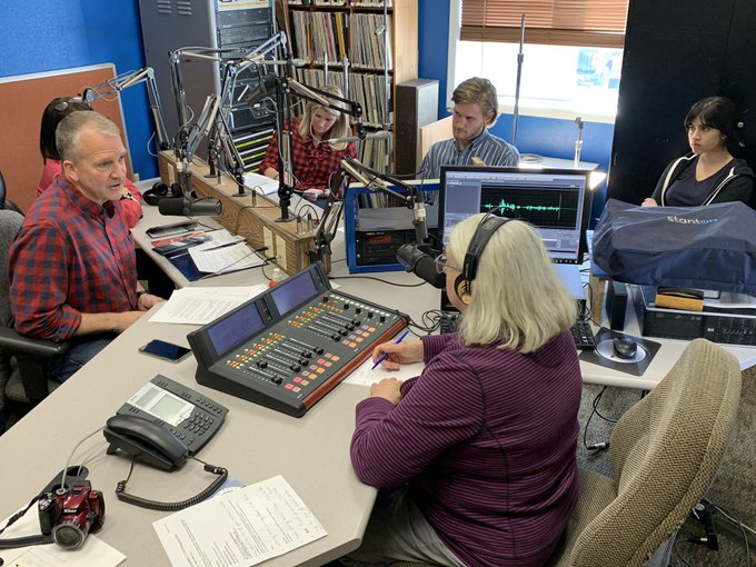 Kicked off my #KodiakCrabfest weekend on KVOK Hotline w/ Chuck & Sarah. Afterward, I joined a media roundtable w/ Maggie and Kavitha of @KmxtNews, & Alistair of @kodiakmirror. Great discussions about @USCGAlaska, our #veterans, combatting ocean waste & our world-class fisheries.